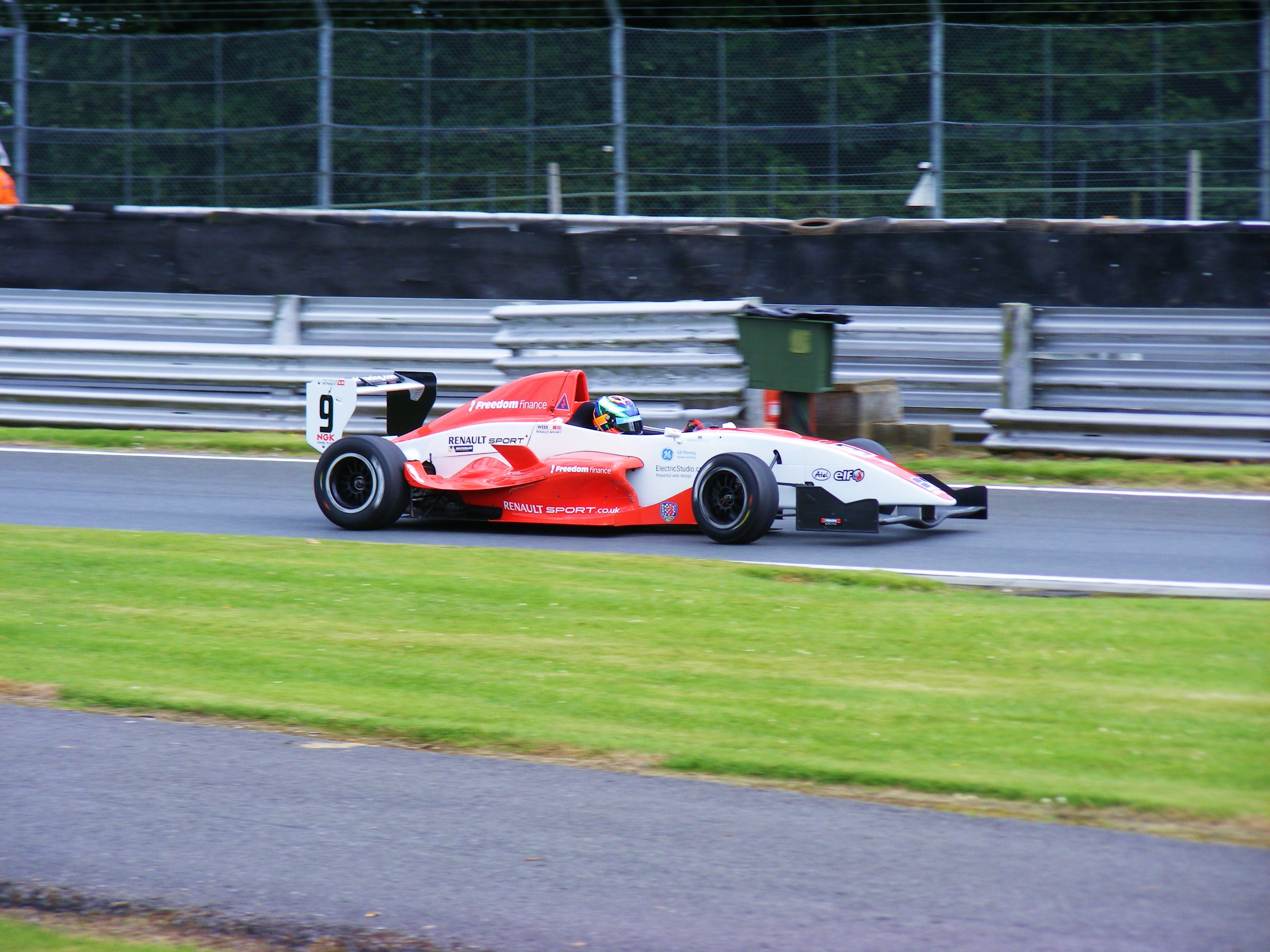 Oli Webb exits the pit lane at Oulton Park to begin his qualifying session.